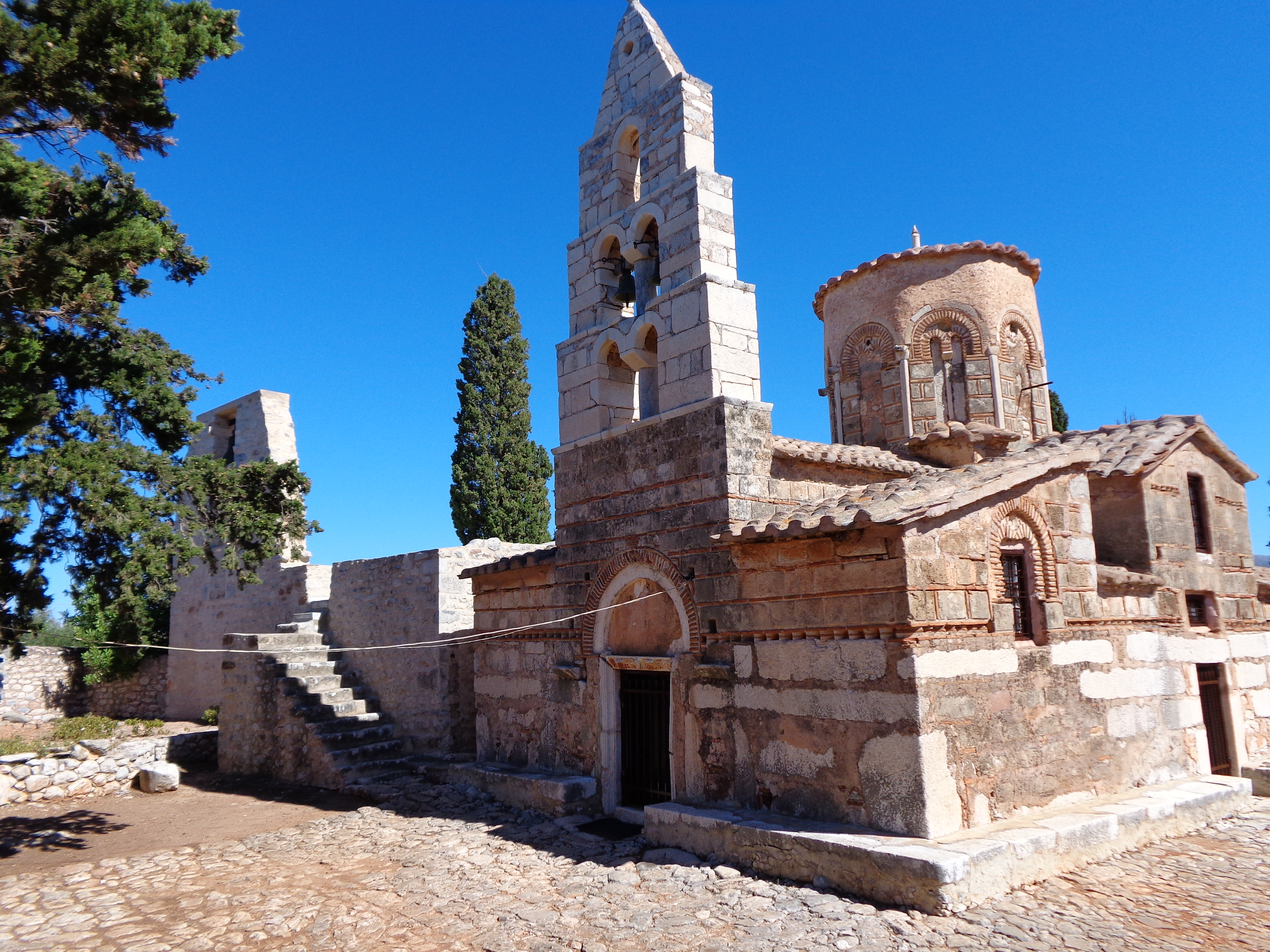 Church of the Taxiarches, charouda, Mani, Greece